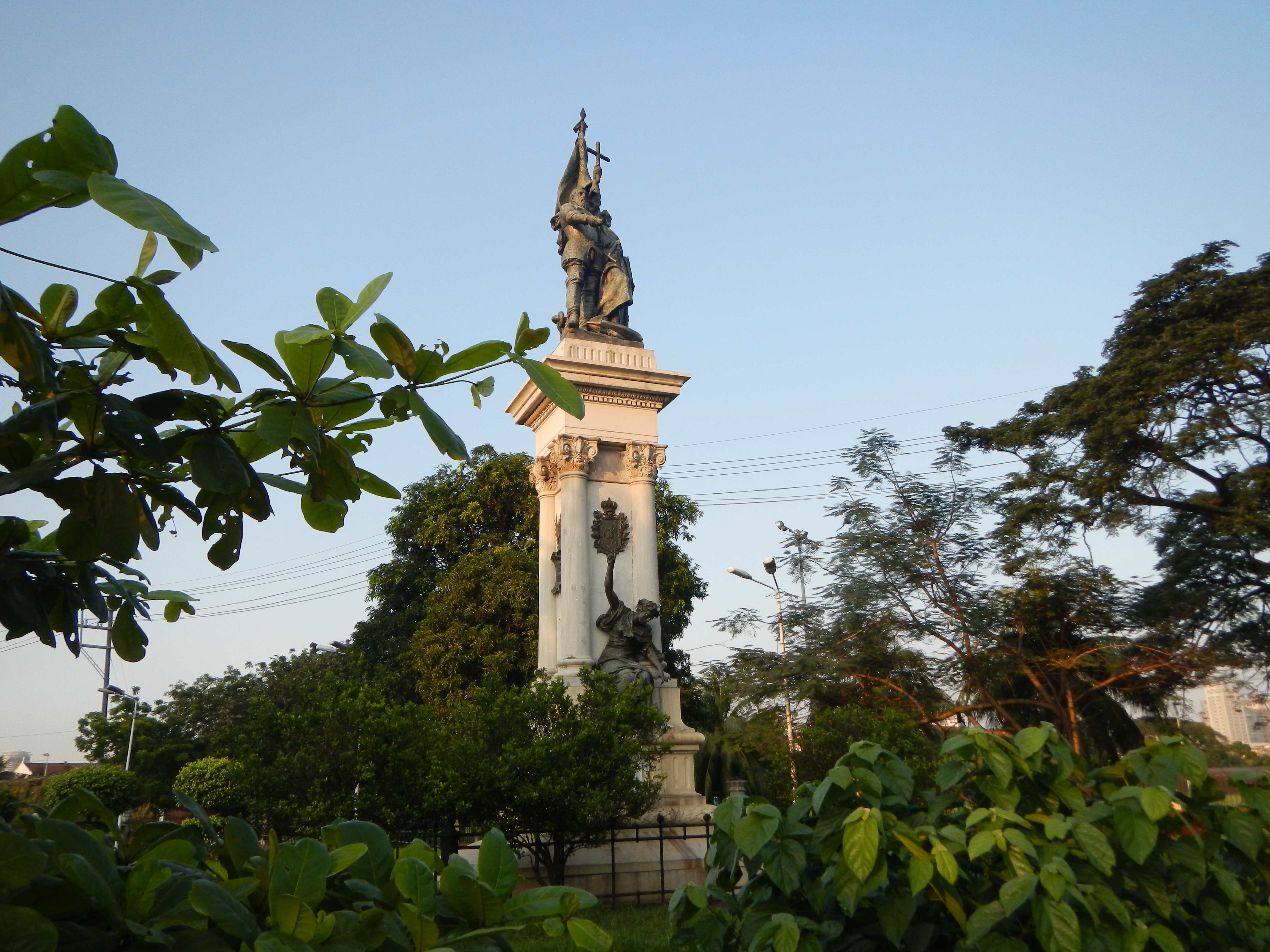 Upload Wizard Panorama photos of -- (general description of landmarks, town, church) - a) Rizal Park[1] also Luneta Park or colloquially Luneta, is an historical urban park located along Roxas Boulevard, [2] City of Manila, Philippines, adjacent to the old walled city of Intramuros. [3] - Kilometre Zero marker in front of the Memorial Clock on the other side of Roxas Boulevard from Rizal Monument. Centennial Clock of the Grand Lodge of Free and Accepted Masons in the Philippines founded in 1912, it has 360 lodges with 16 500 members and is recognised by the United Grand Lodge of England ]Freemasonry in Asia[4] - the marble marker designated as KM 0 fronting the Rizal Monument in Rizal Park is Kilometer Zero [5] for road distances on the island of Luzon and the rest of the Philippines.Rizal Monument[6] facing Quirino Grandstand [7] - Museum of the Filipino People[8] - List of public art in Metro Manila[9] - b) Lorenzo Ruiz[10] monument in front of the Quirino Grandstand , c) Monument of Jaime Sin [11] and d) Cory Aquino Memorial Shrine and Ninoy Aquino Monument located at the intersection of Roxas Boulevard and Padre Burgos Drive in Manila ...[12] January 25, 2010 - e) Andrés de Urdaneta, [13] Miguel López de Legazpi [14] Monument at Intramuros [15].